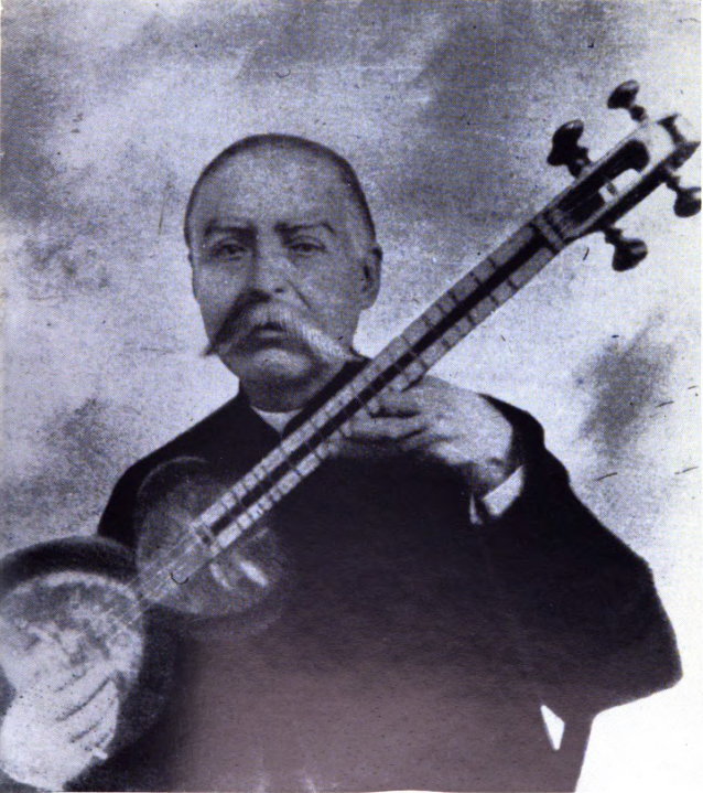 Portrait of Mirza Abdollah